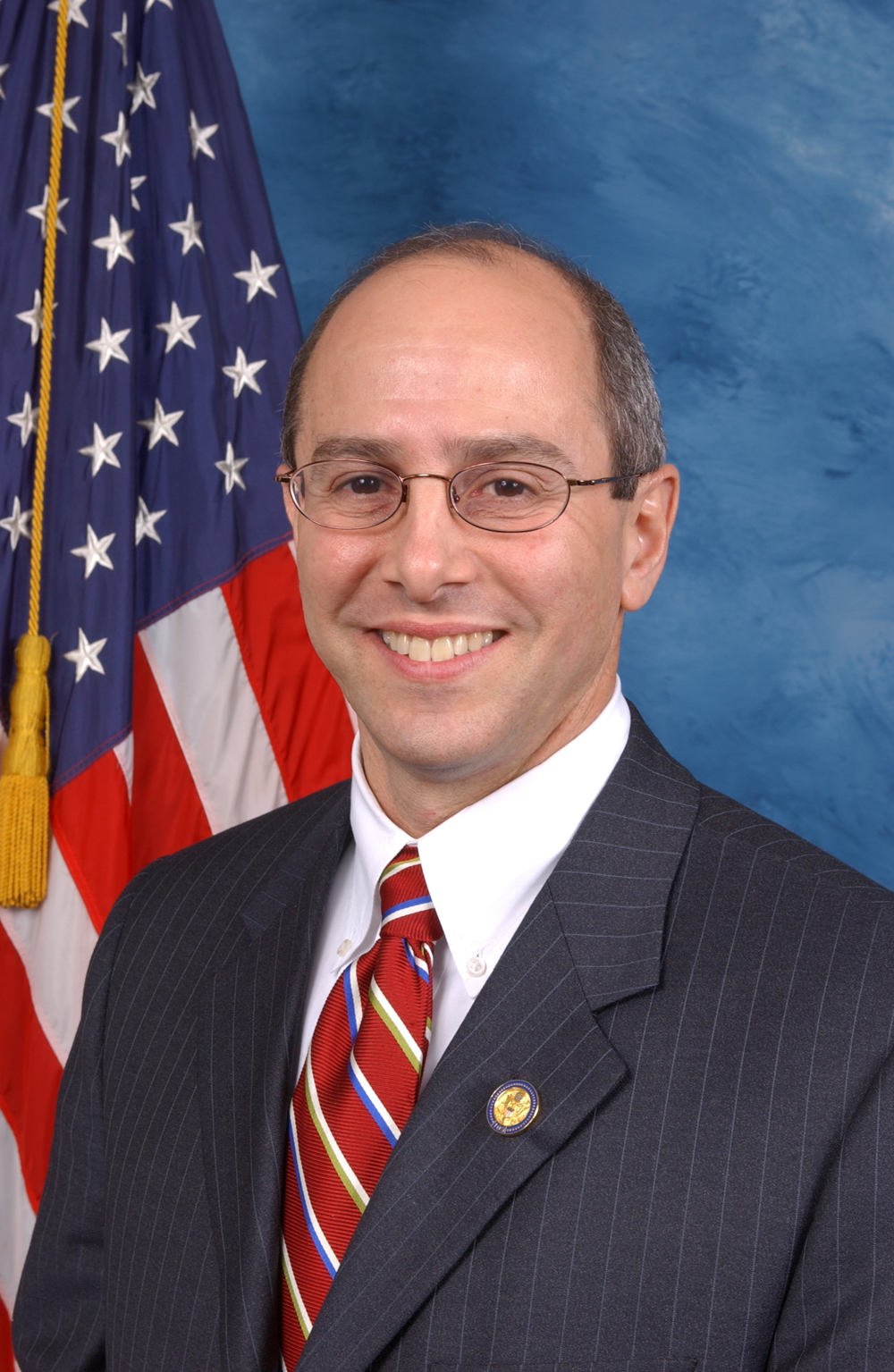 Charles Boustany, member of the United States House of Representatives.